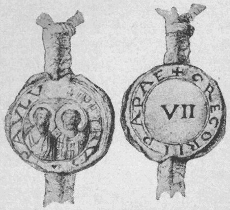 Seal of Pope Gregory VII